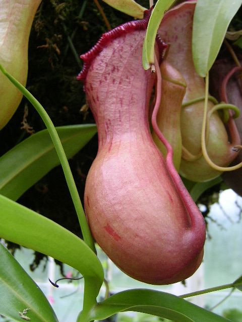 Nepenthes ventricosa